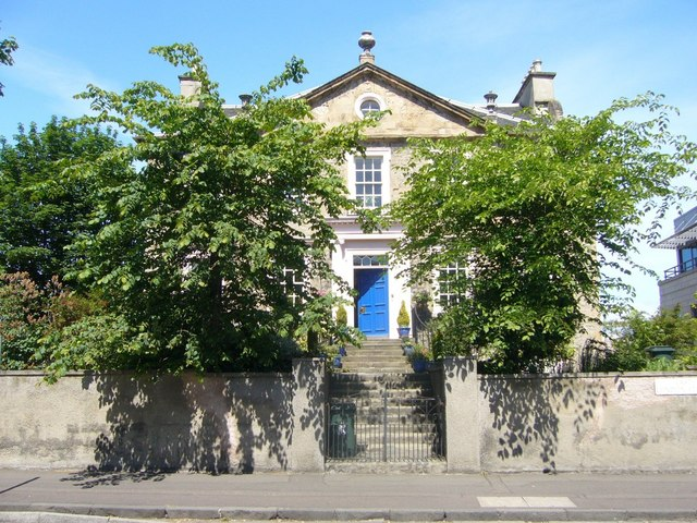 Gayfield House, 18 East London Street A fine mansion, built in 1763, three years before the building of the New Town.